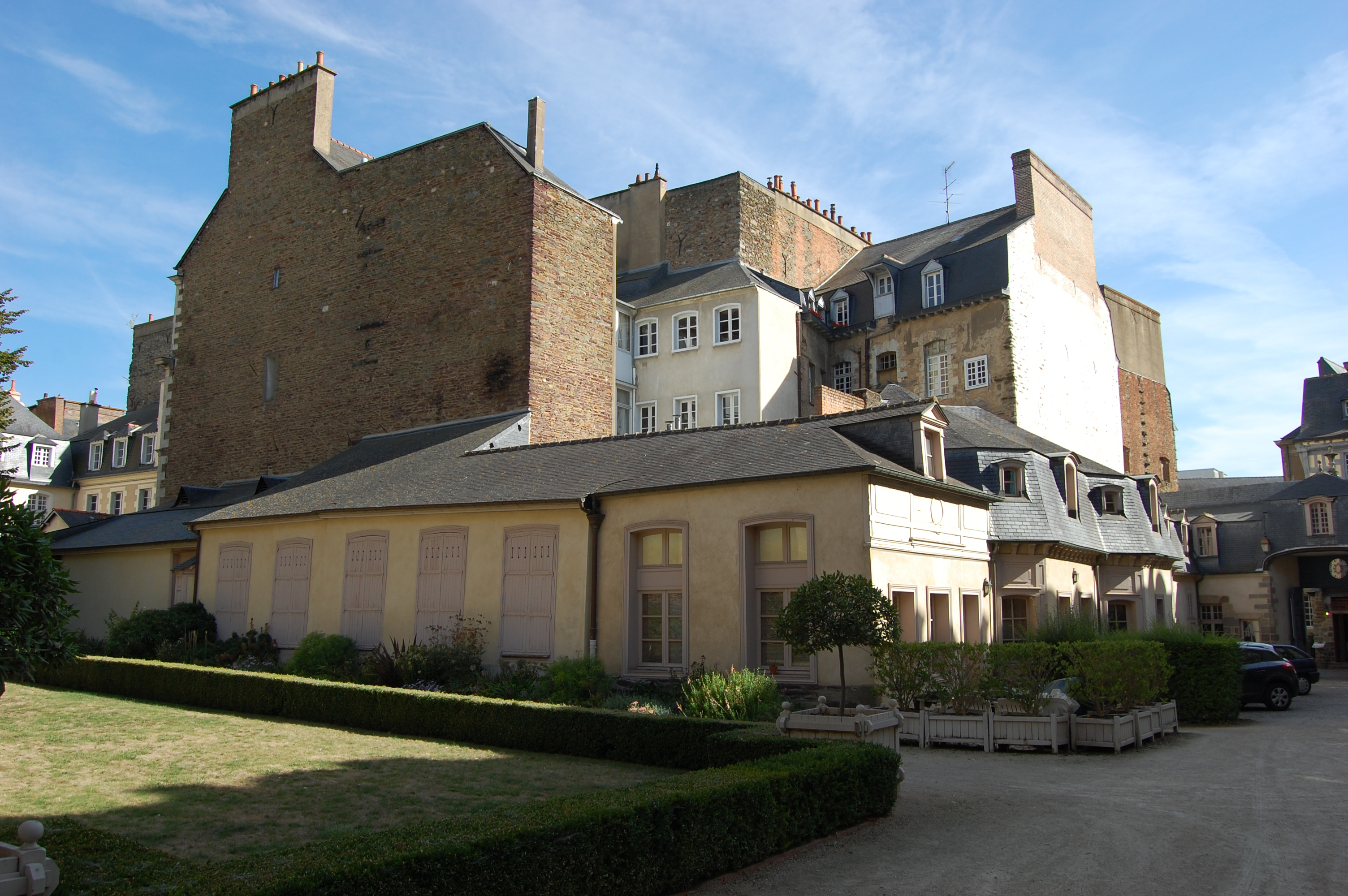 Hôtel de Blossac, outbuildings and stables